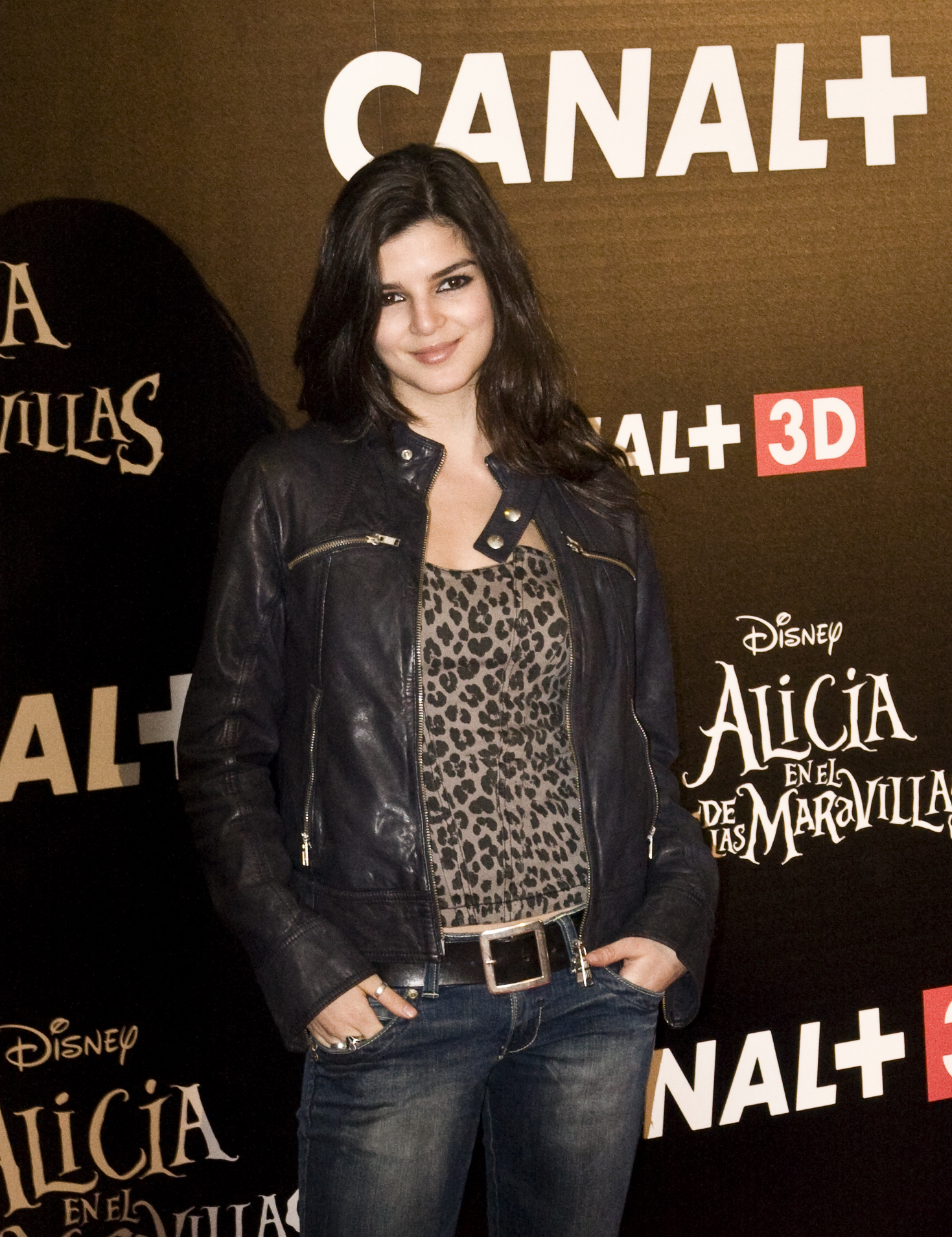 Clara Lago Spanish actress at the photocall of Alice in Wonderland in 2010.